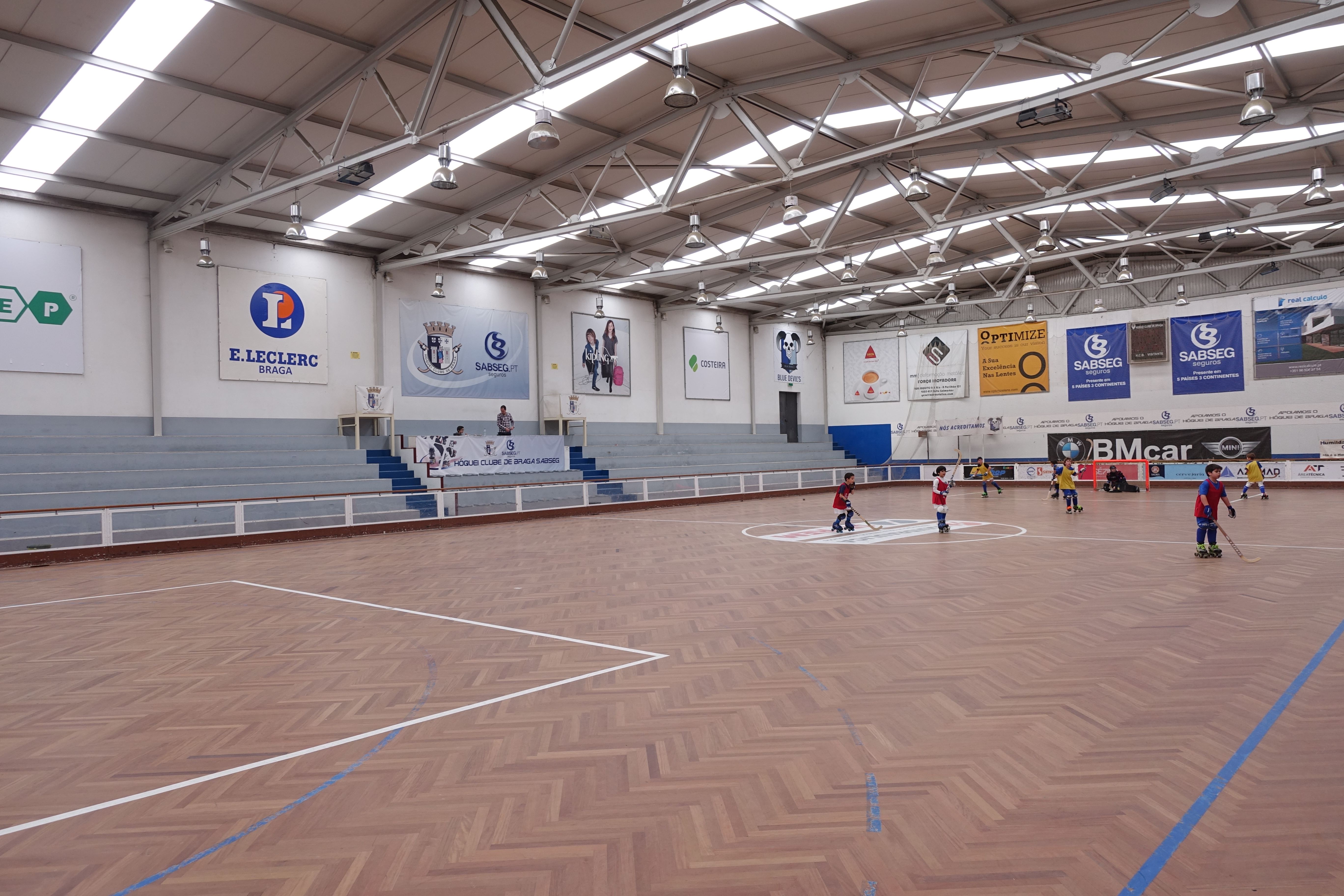 Pavilhão das Goladas in Braga, Portugal.